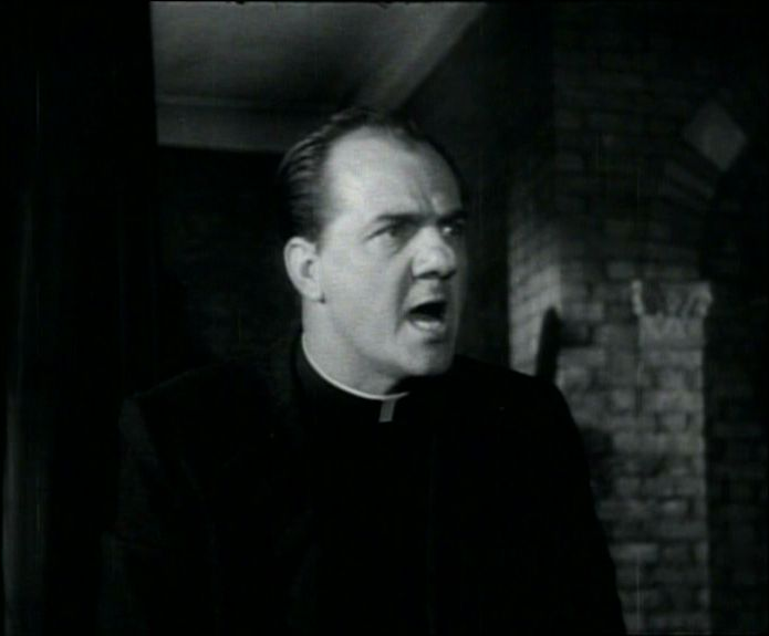 Karl Malden in a screenshot from the trailer for the film On the Waterfront.